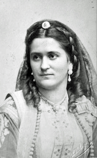 Queen Milena of Montenegro